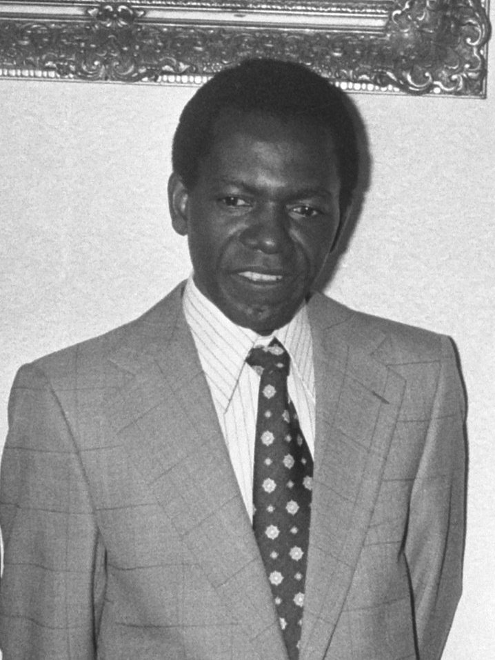 Fabien Eboussi Boulaga (Kampen, 1974)